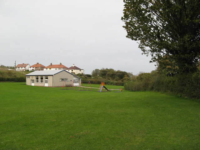 Pydew Village Hall, near to Mochdre, Conwy County, Wales. A very neat and useful facility surrounded by playing fields.